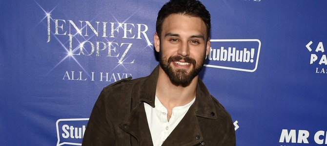 Ryan Guzman showing his support for Jennifer Lopez at her "All I Have" Vegas show